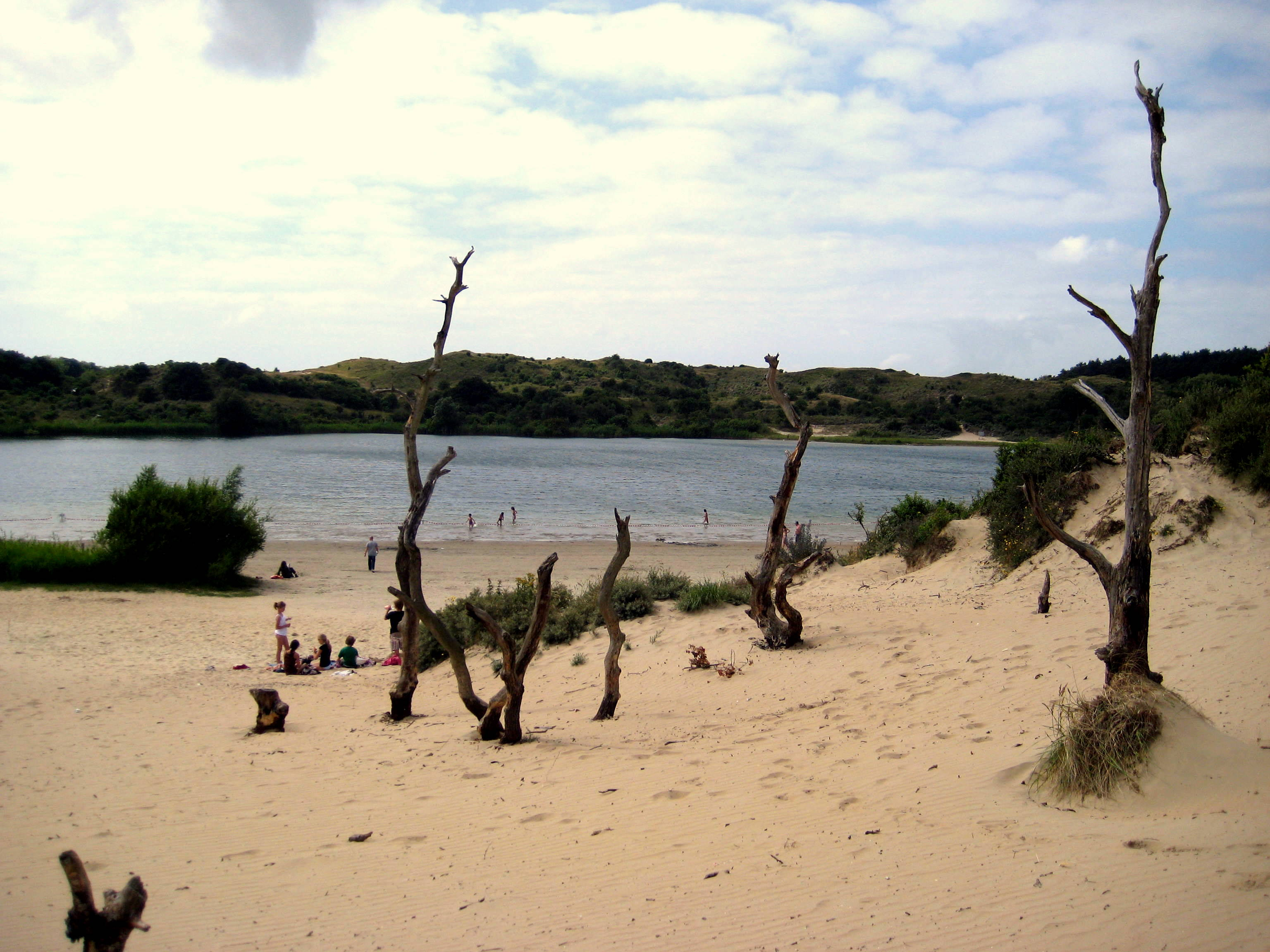 Watering hole 't Wed in Zuid-Kennemerland National Park.